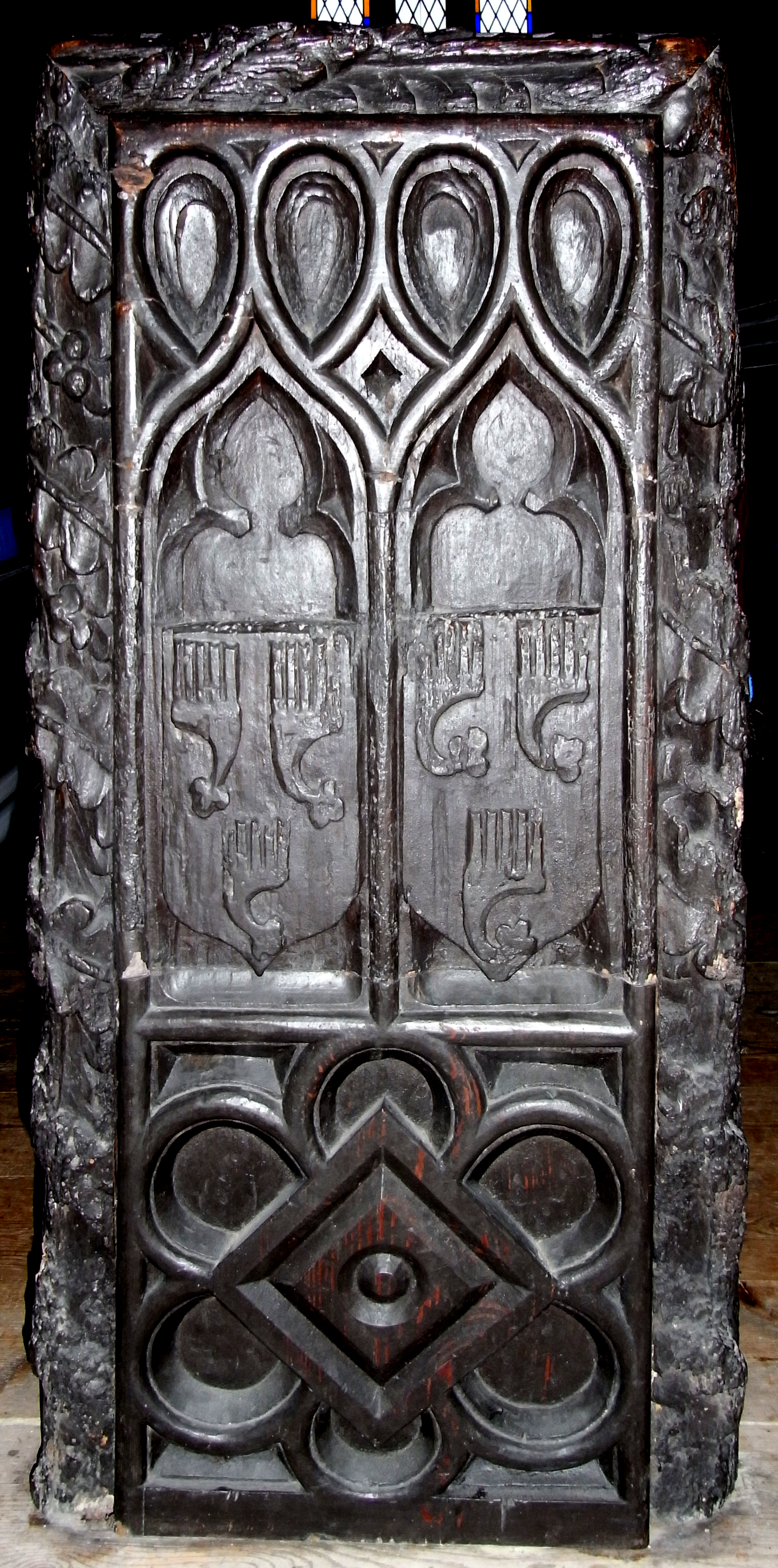 Grenville arms on bench end in All Hallows Church, Woolfardisworthy, North Devon. Apparently relates to Roger Grenville (died 1545), present on the Mary Rose when it sank in Portsmouth Harbour in 1545, whose son was the heroic Admiral Sir Richard Grenville (1542–1591). Roger Grenville (died 1545) married Thomasine Cole (d.1586),[1] a daughter of Thomas Cole of Slade[2] in the parish of Cornwood in Devon and of Bucks in the parish of Woolfardisworthy, North Devon.